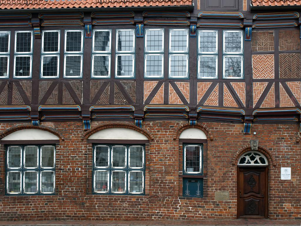 Krempe (Schleswig-Holstein, Germany),town hall , photo 2009